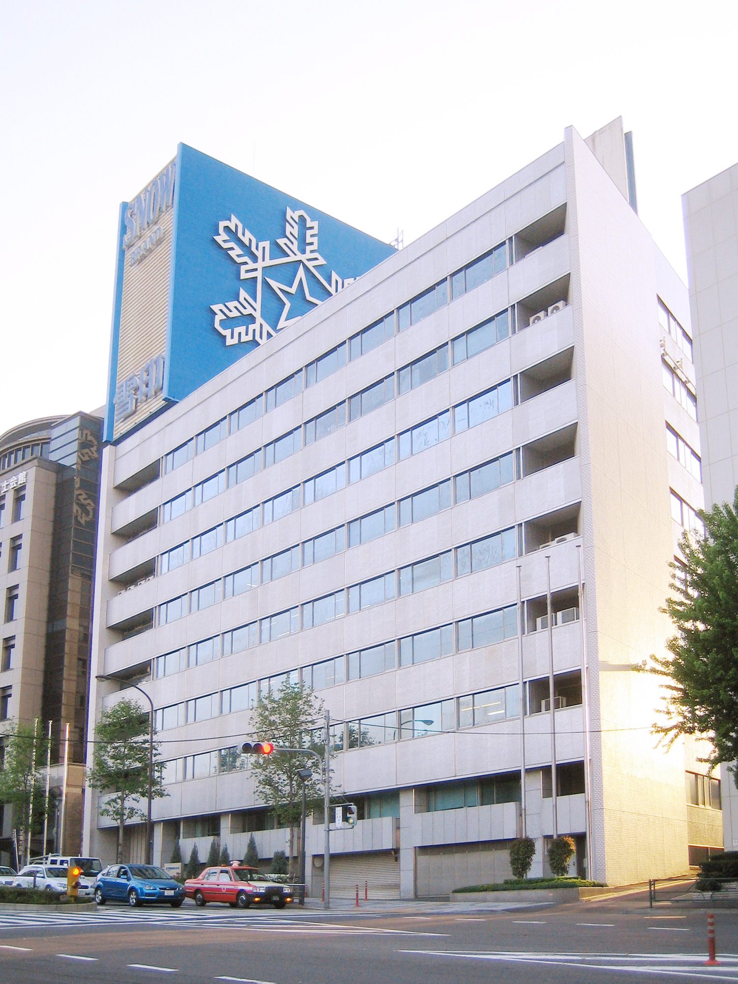 Snow Brand Milk Products Co., Ltd. (雪印乳業 Yukijirushi Nyūgyō), a in Shinjuku, Tokyo, Japan